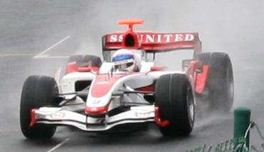 Anthony Davidson testing the Super Aguri SA07 at Spa-Francorchamps.